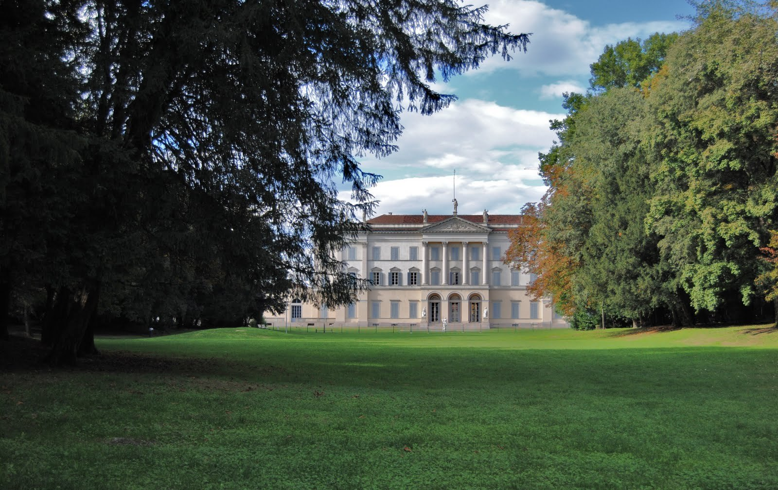 desio villa tittoni traversi